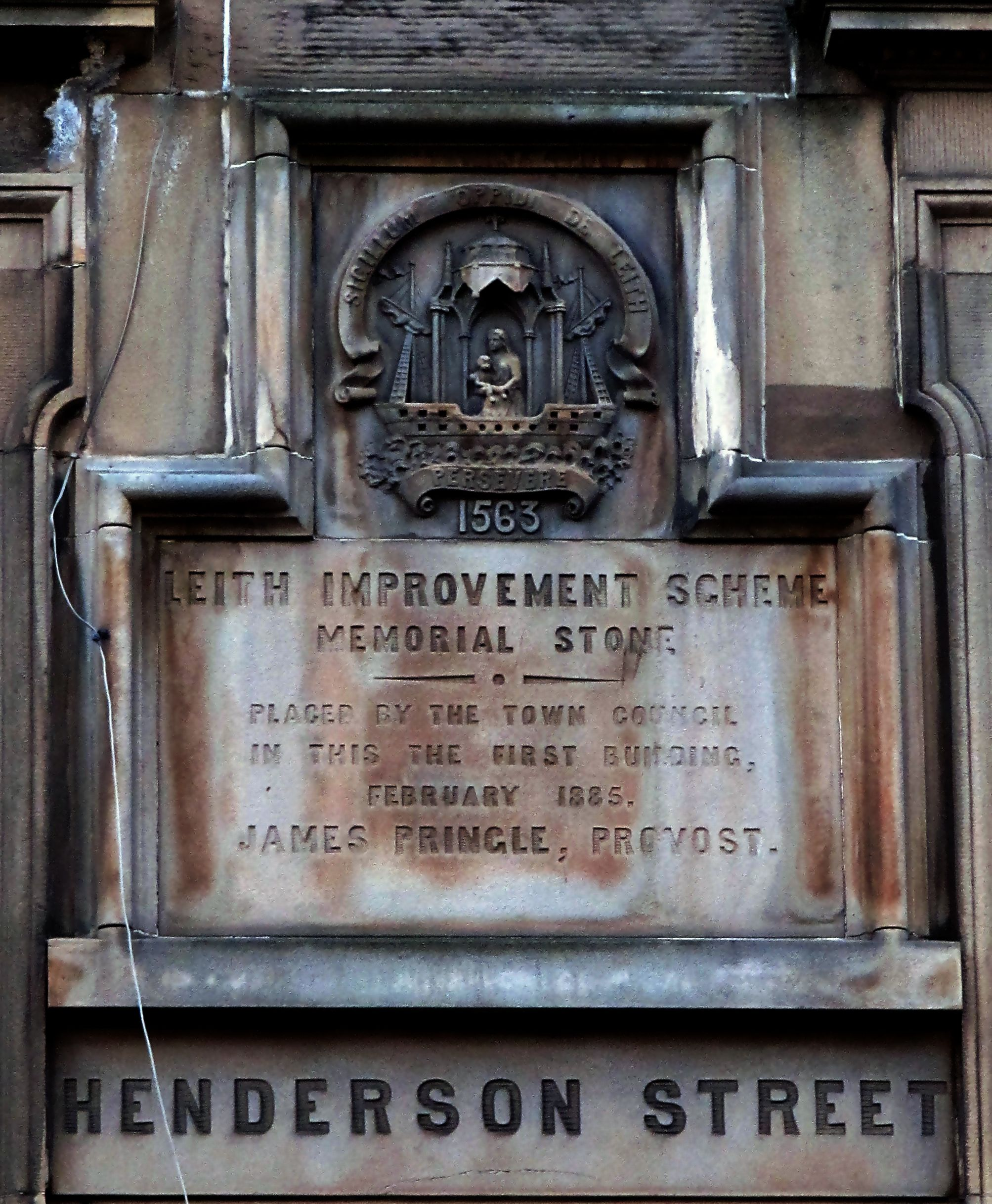 Memorial Stone on Henderson Street Tenement Building, Leith, Edinburgh